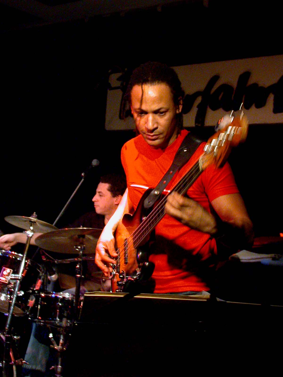 Michel Alibo with the Nguyên Lê Trio at the Jazz Club Unterfahrt, Munich, Germany